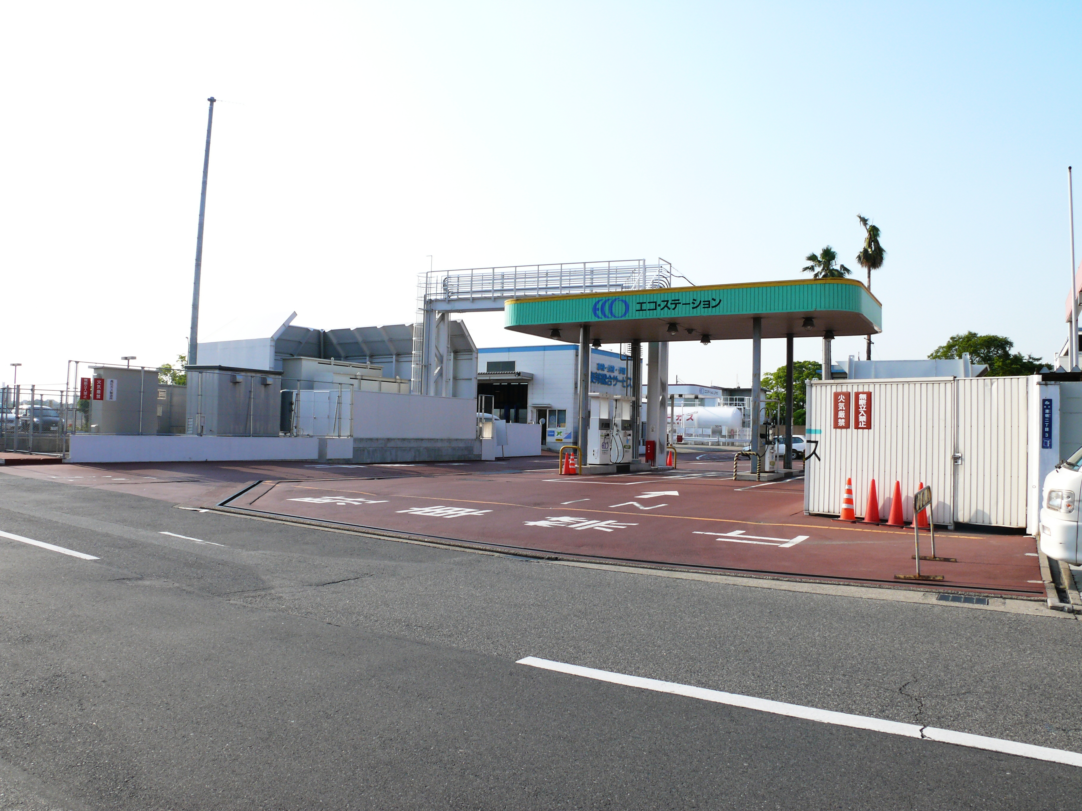 Nagoya of Komei Eco-Station.